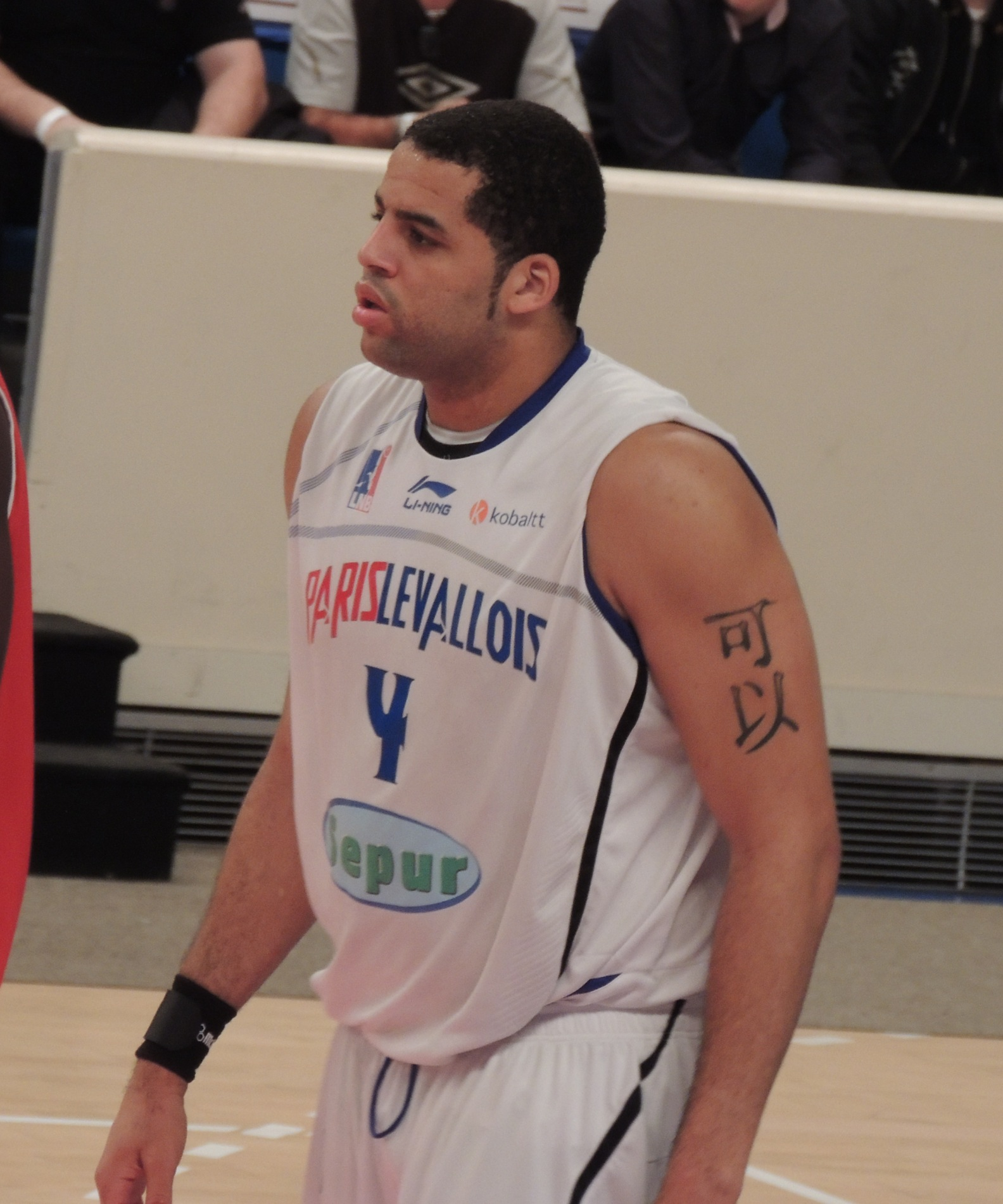 Sean May warming up for Paris-Levallois